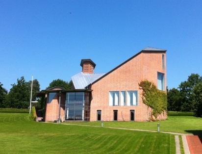 The church of Virklund, Denmark, in sunshine.